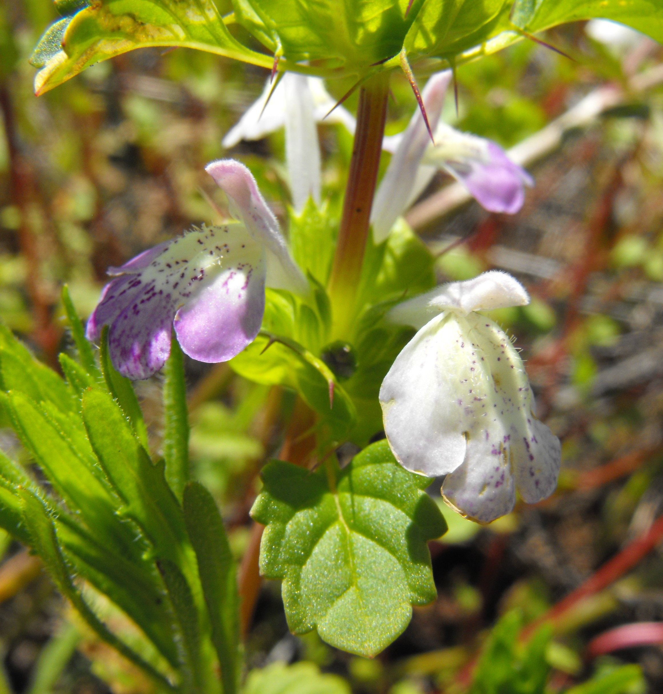 Acanthomintha ilicifolia in Sycamore Canyon, San Diego, California, USA. I found the plant just down the trail, around the first curve, from the parking area off Hwy 67, amidst weeds.